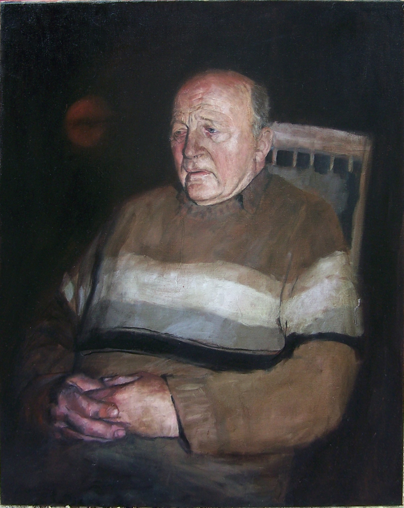 Oil painting depicting the Swedish police officer Gösta Söderström. The Swedish title translates as "The last witness".